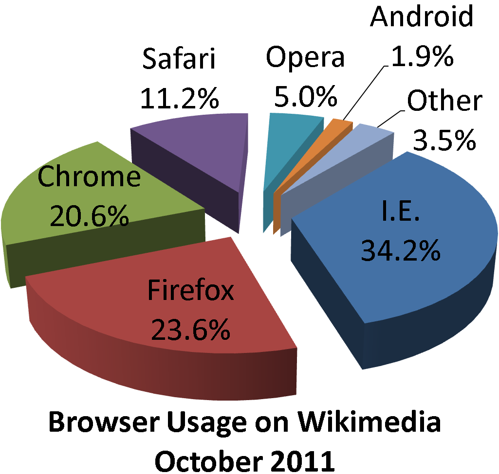 Browser usage share on Wikimedia Foundation projects on June 2011.